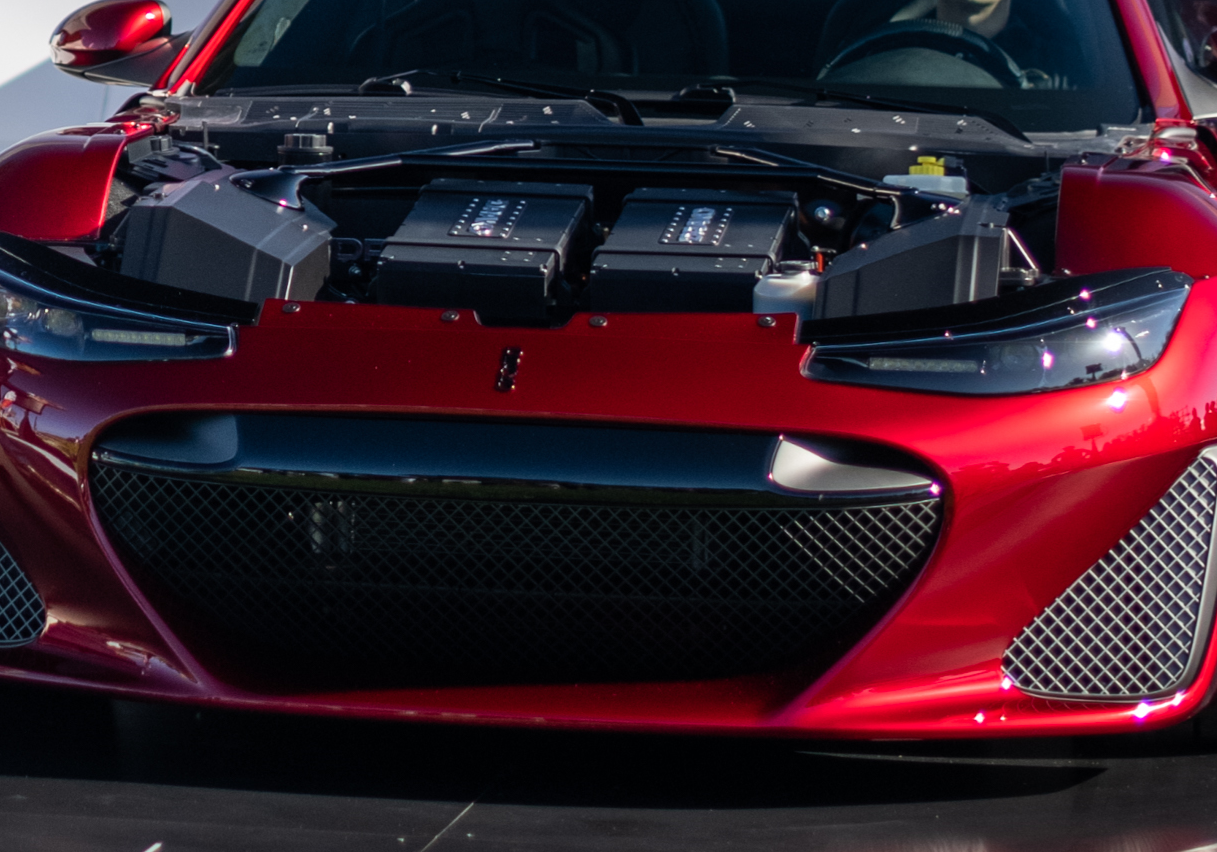 Two inverters under front hood of Drako GTE all-electric supercar